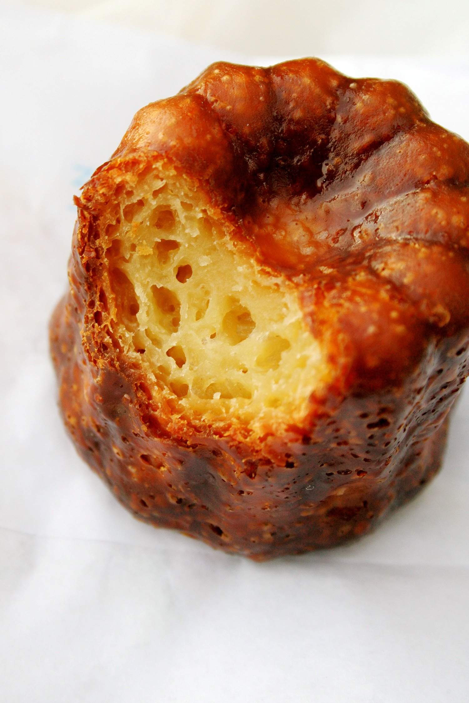 The insides of a canelé. Author: Robyn Lee (user roboppy) Date: November 4, 2006 URL: Uploaded by author